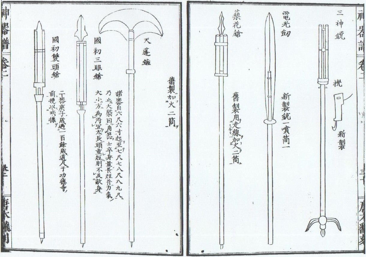 Combination weapons,literally from right to left:three-deity ranseur(三神钂),spark sword(電光劍),pear blossom spear(梨花槍),Tiānpéng's spade(天蓬鏟),three-eyes spear(三眼槍),two-heads spear(雙頭槍).